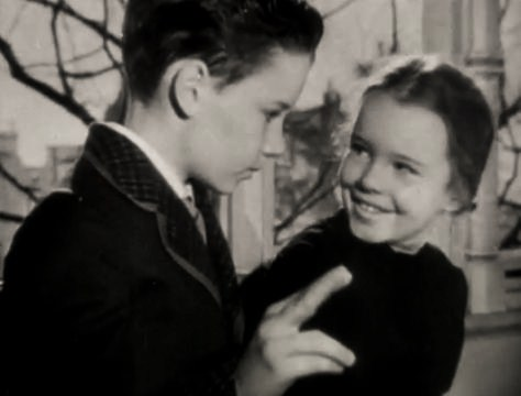 Peter Miles & Gigi Perreau in Enchantment - trailer (cropped screenshot)